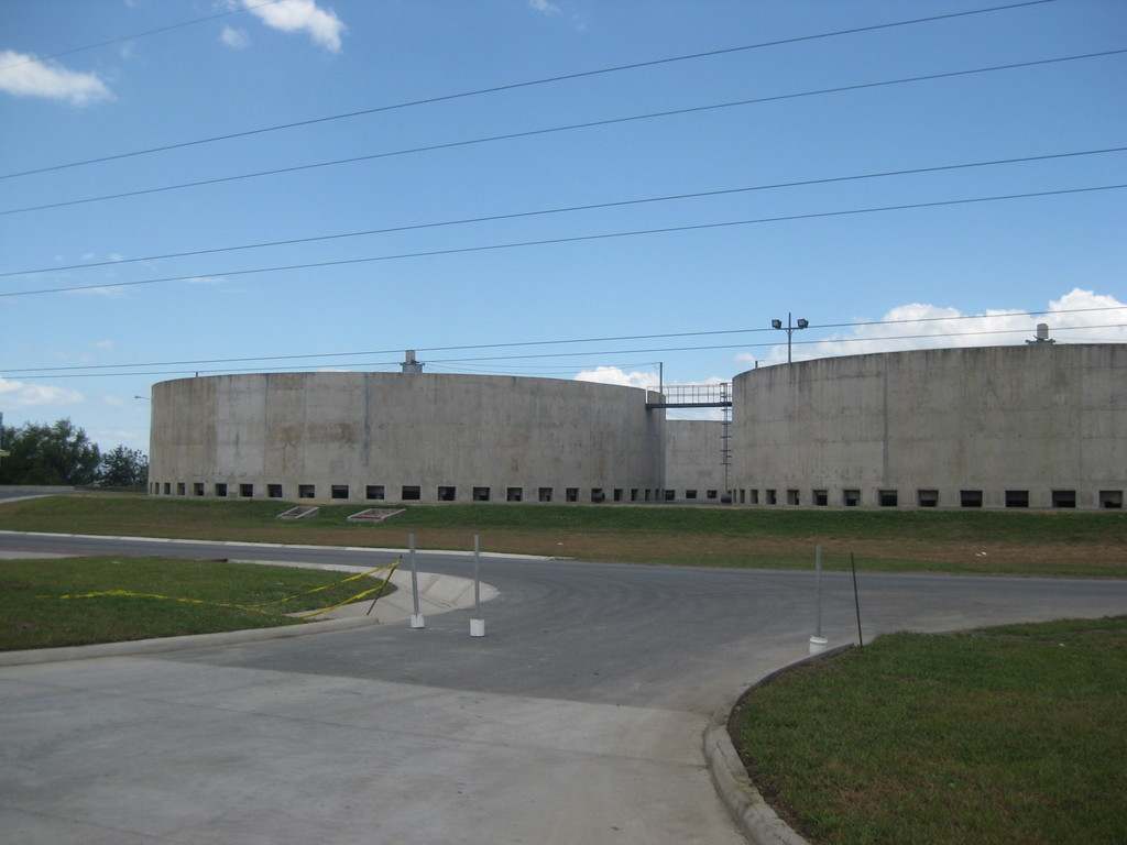 Managua Wastewater Treatment Plant